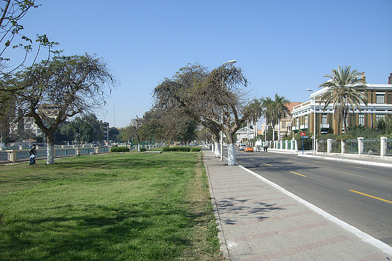 Old part of the town, Salah Salim St., Egypt